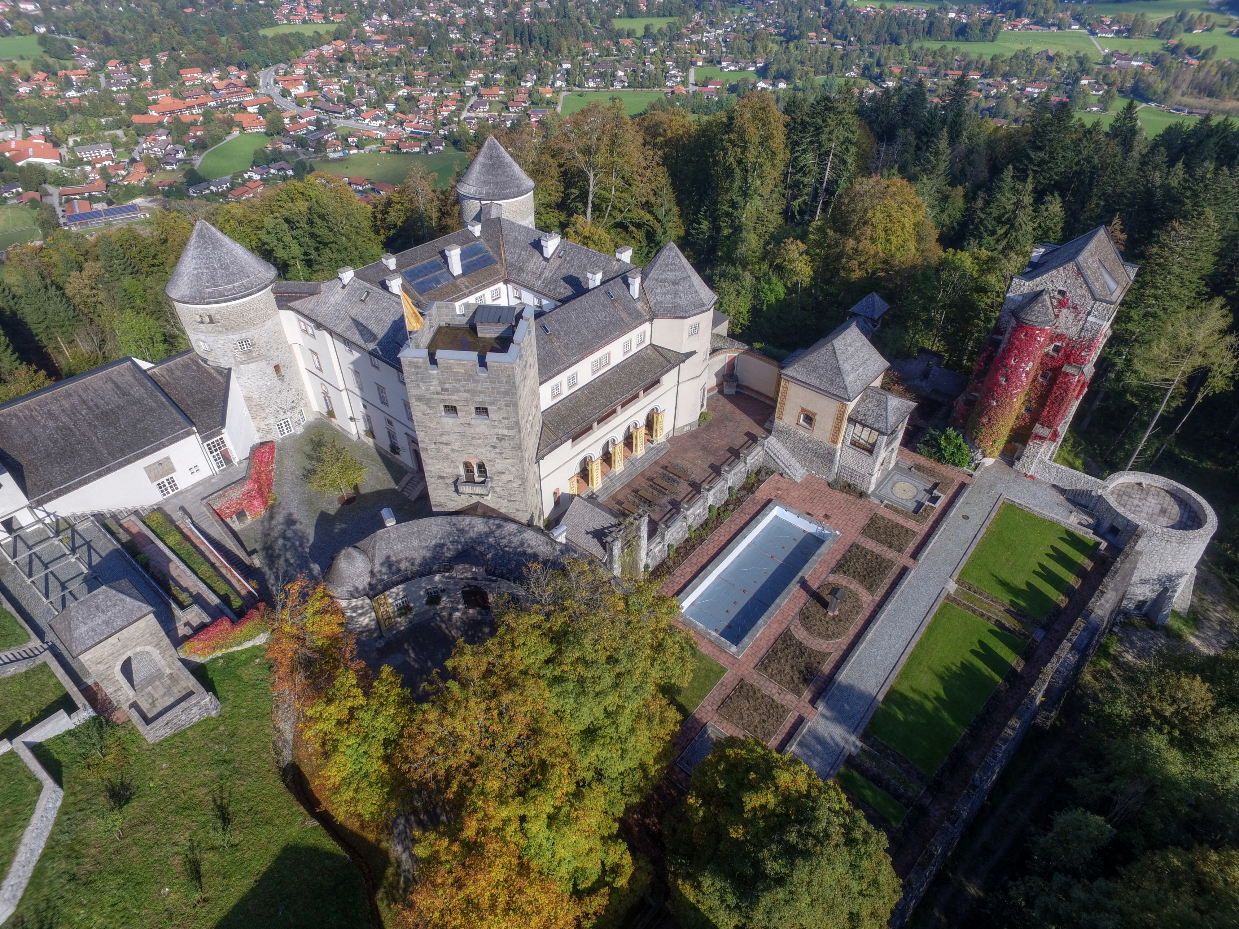 Schloss Ringberg (Ringberg Castle) aerial view with Reitrain village in the background.